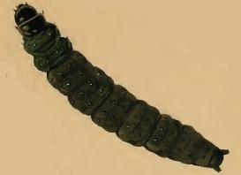 Stainton’s Natural History of the Tineina (1855–1873): Agonopterix furvella